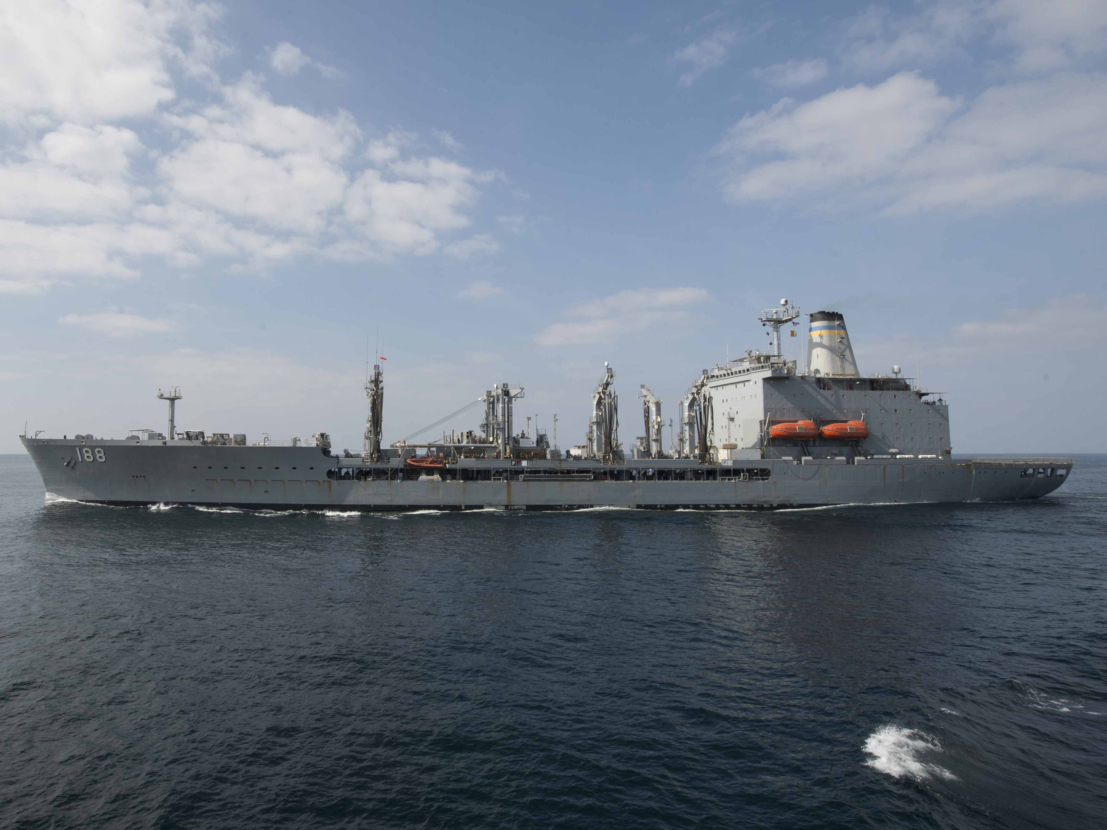 U.S. 5TH FLEET AREA OF OPERATIONS (Jan. 17, 2015) The Military Sealift Command fleet replenishment oiler USNS Joshua Humphreys (T-AO 188) transits alongside the guided-missile destroyer USS Dewey (DDG 105) during a replenishment-at-sea. Dewey is deployed in the U.S. 5th Fleet area of operations supporting Operation Inherent Resolve, strike operations in Iraq and Syria as directed, maritime security operations, and theater security cooperation efforts in the region. (U.S. Navy photo by Mass Communication Specialist 3rd Class James Vazquez/Released)